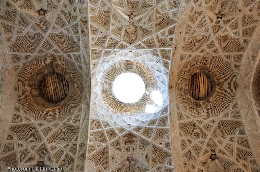 Beautiful arc of Kashani Hall of Bazaar of Arak.